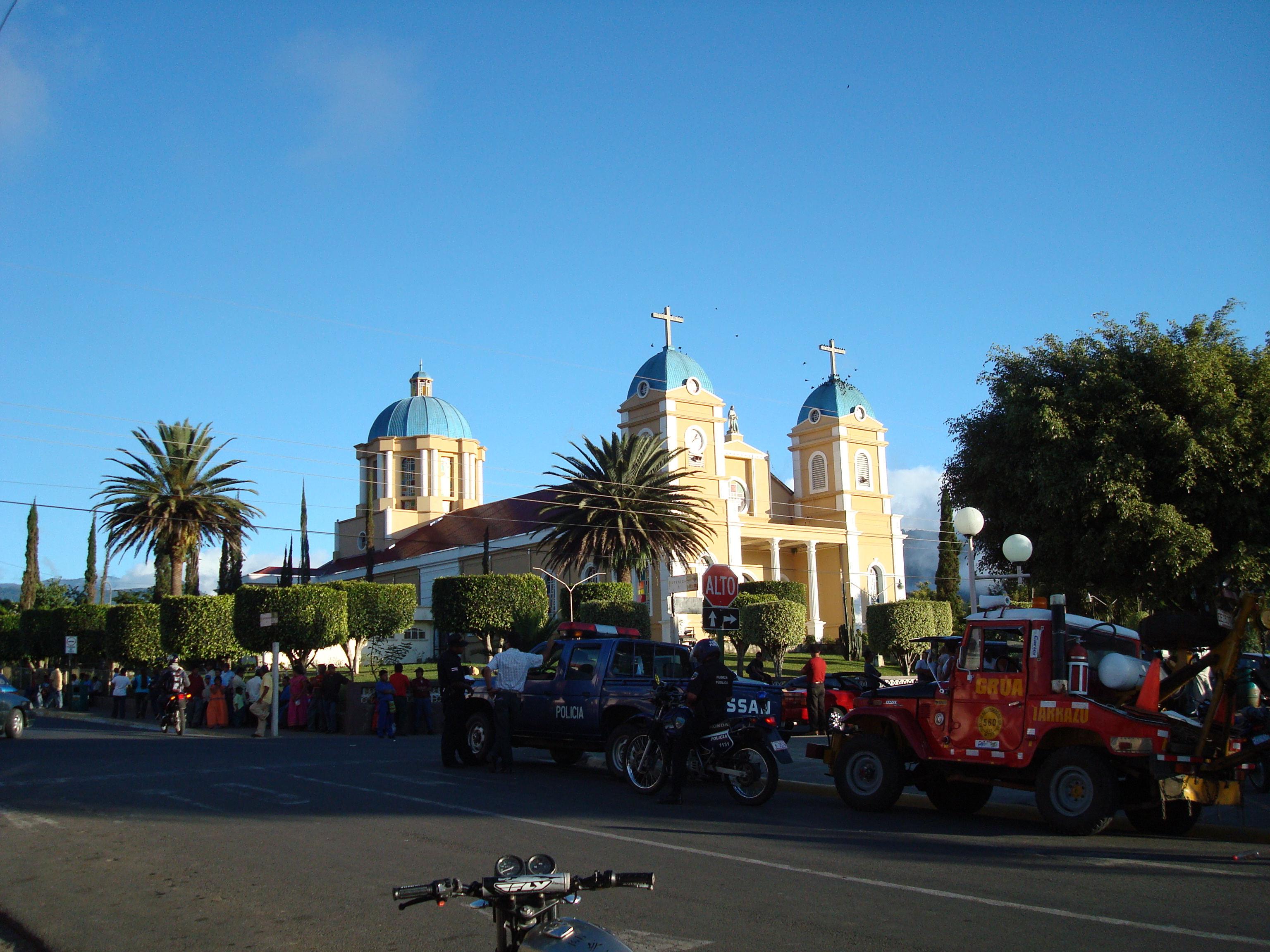 Jorge Umana